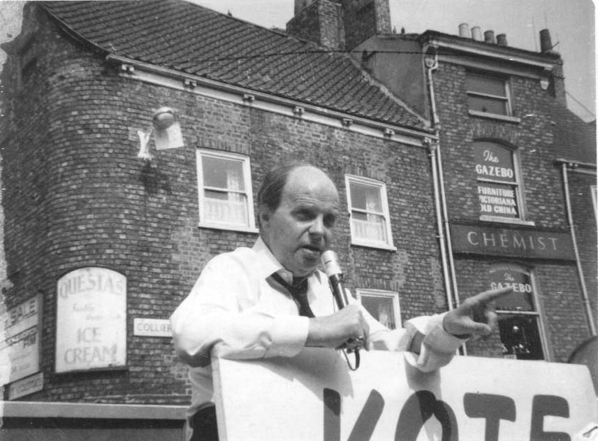 UK Conservative politician Iain Macleod campaigning at York in the General Election of 1970. The Conservatives won the election and Macleod was appointed Chancellor of the Exchequer, but died suddenly only a few weeks after taking office.